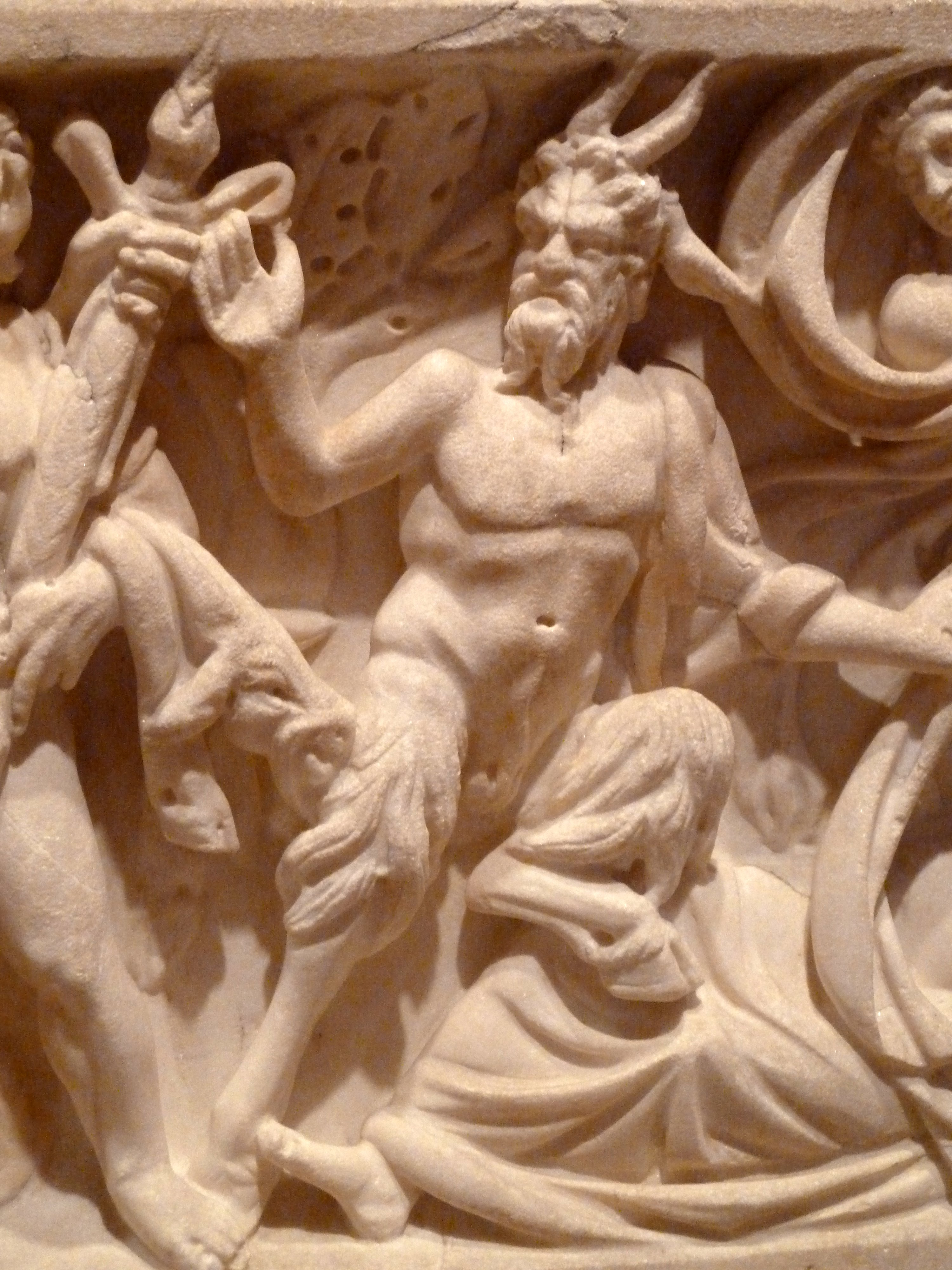 Sarcophagus with Scenes of Bacchus (Roman, AD 210-220). Satyr detail.